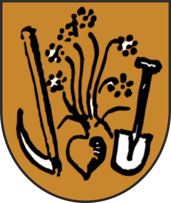 Coat of arms of Schönwald (today: Bojków).